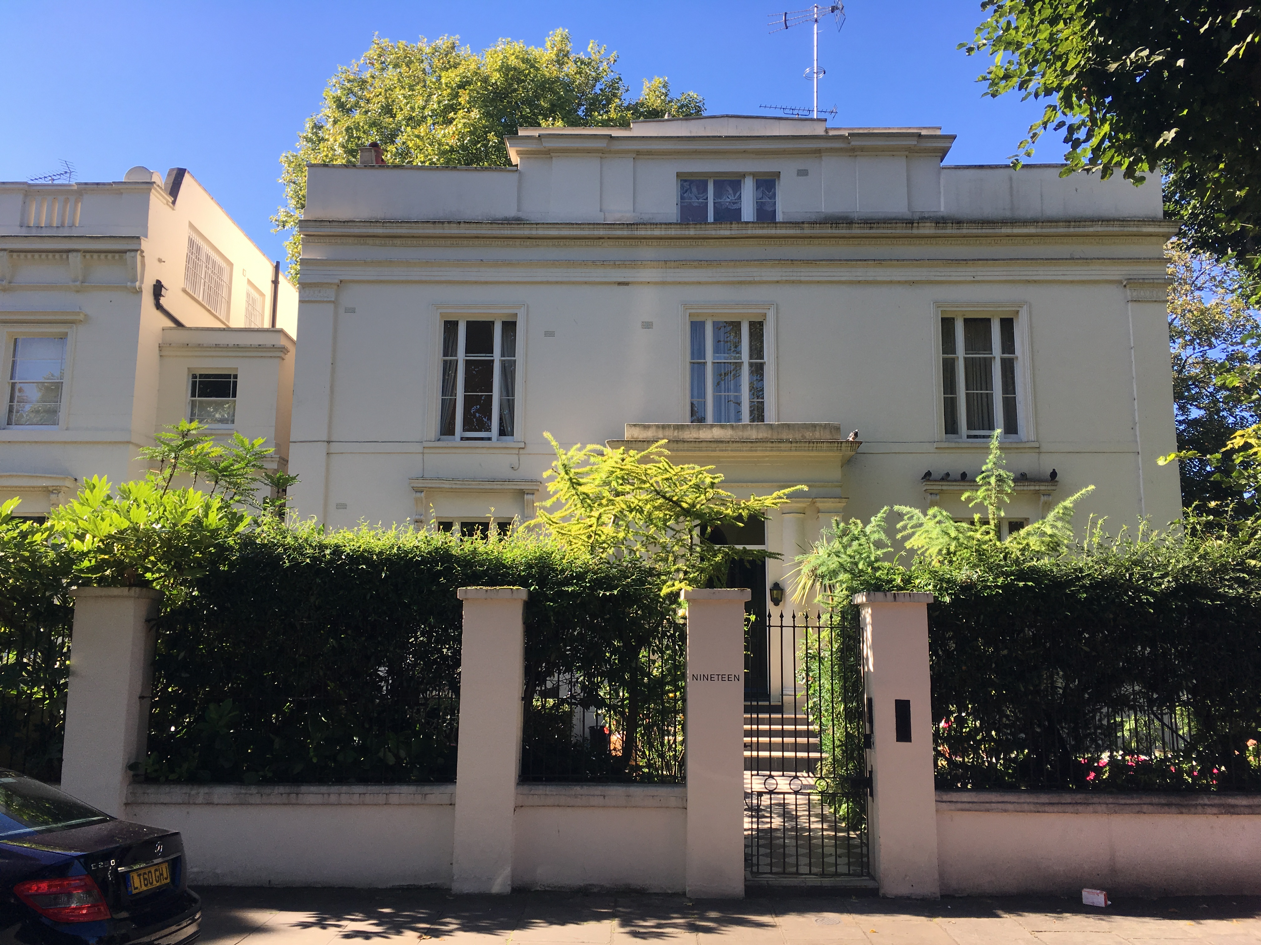 Number 19 Including Front Garden Wall And Gatepiers Number 24 Including Front Garden Wall And Gatepiers Wikidata has entry Q26520147 with data related to this item.